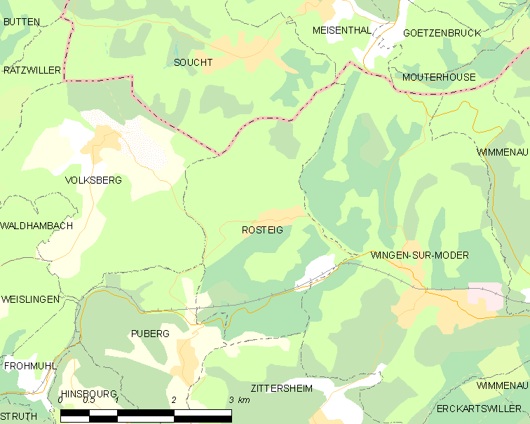 Map of French municipality